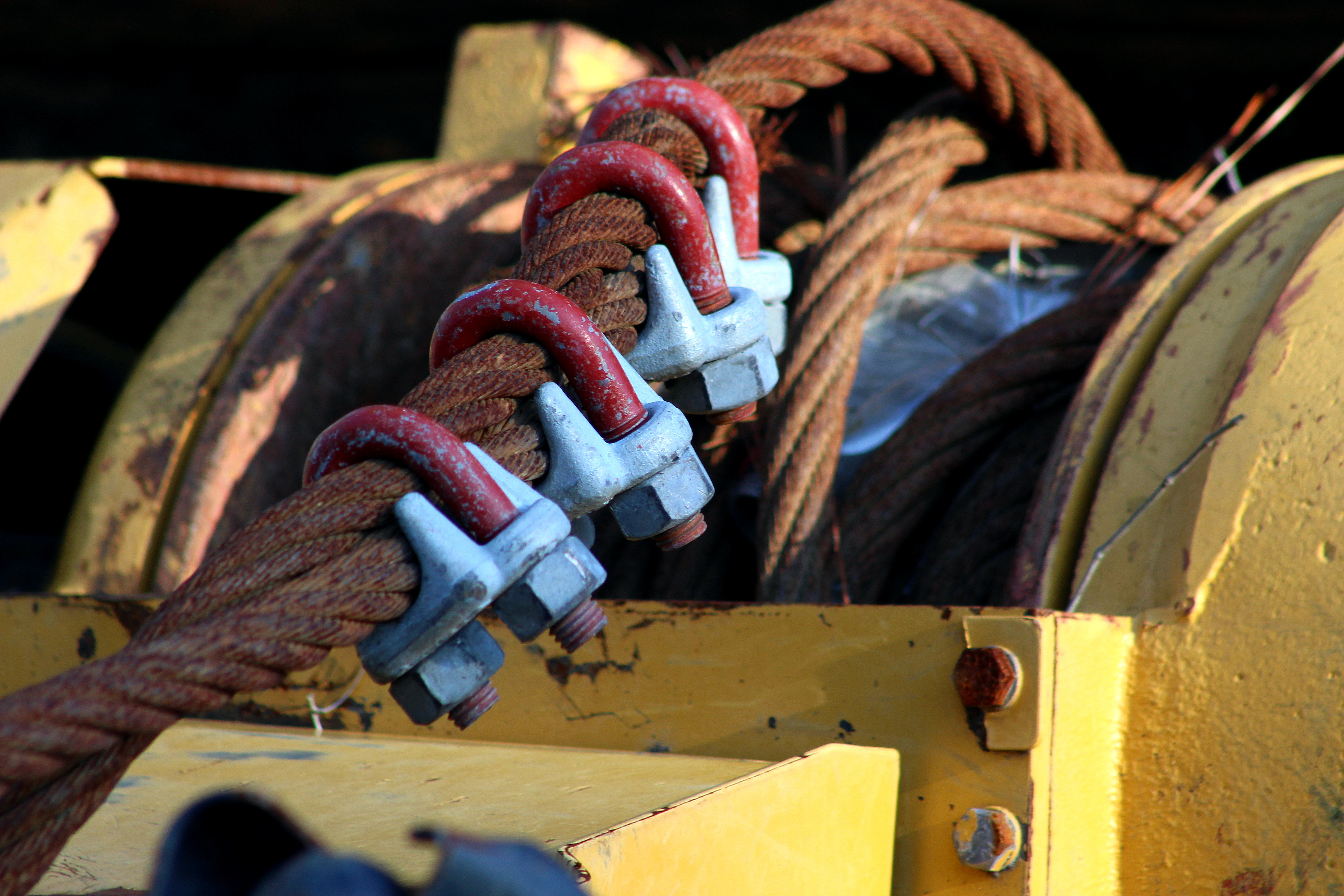 This is a series of wire rope clamps securing wire rope on a logging machine